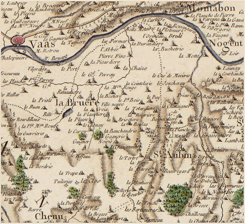 Cassini card of LA BRUERE SUR LOIR (Sarthe, France)